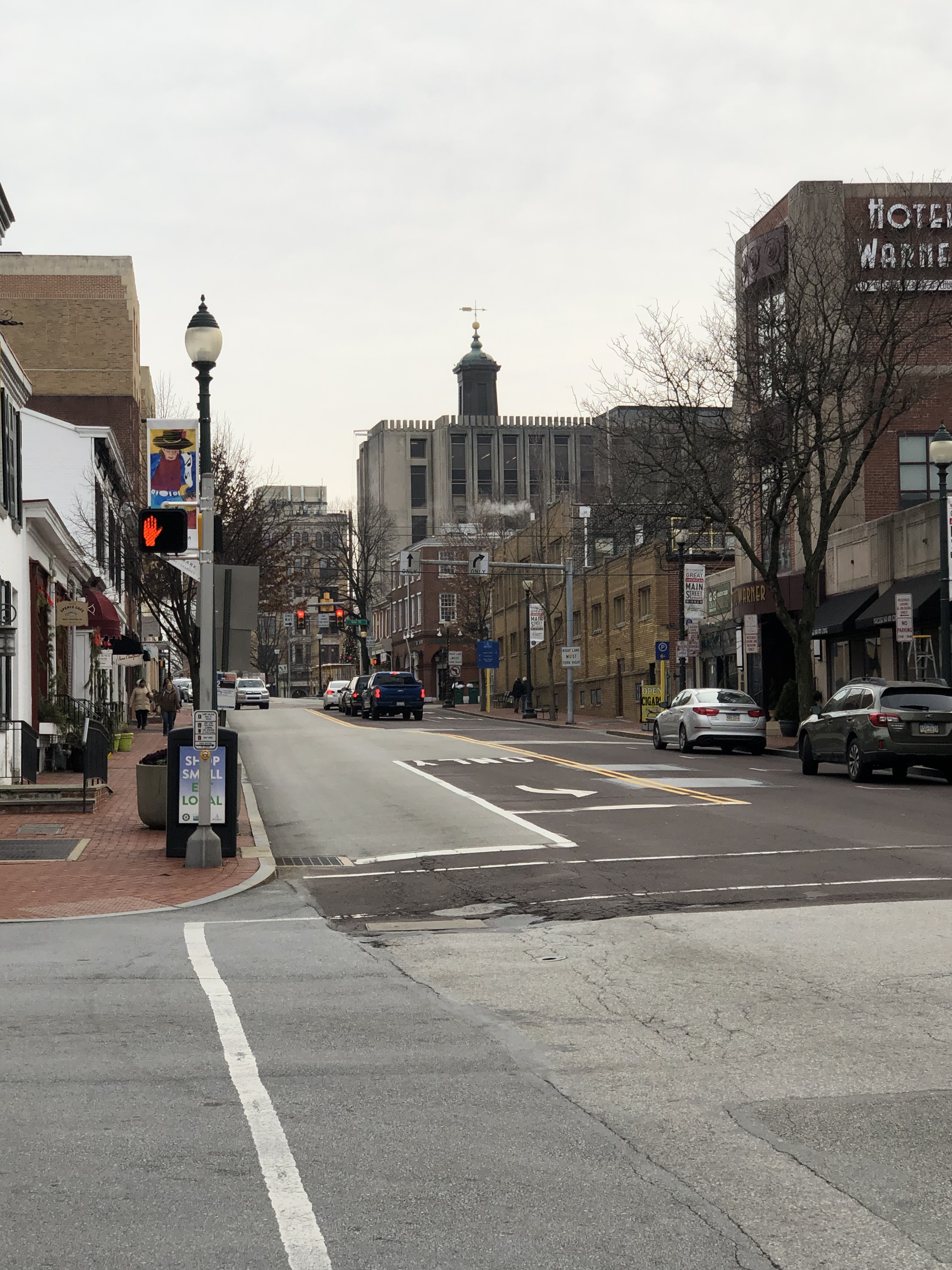 West Chester PA